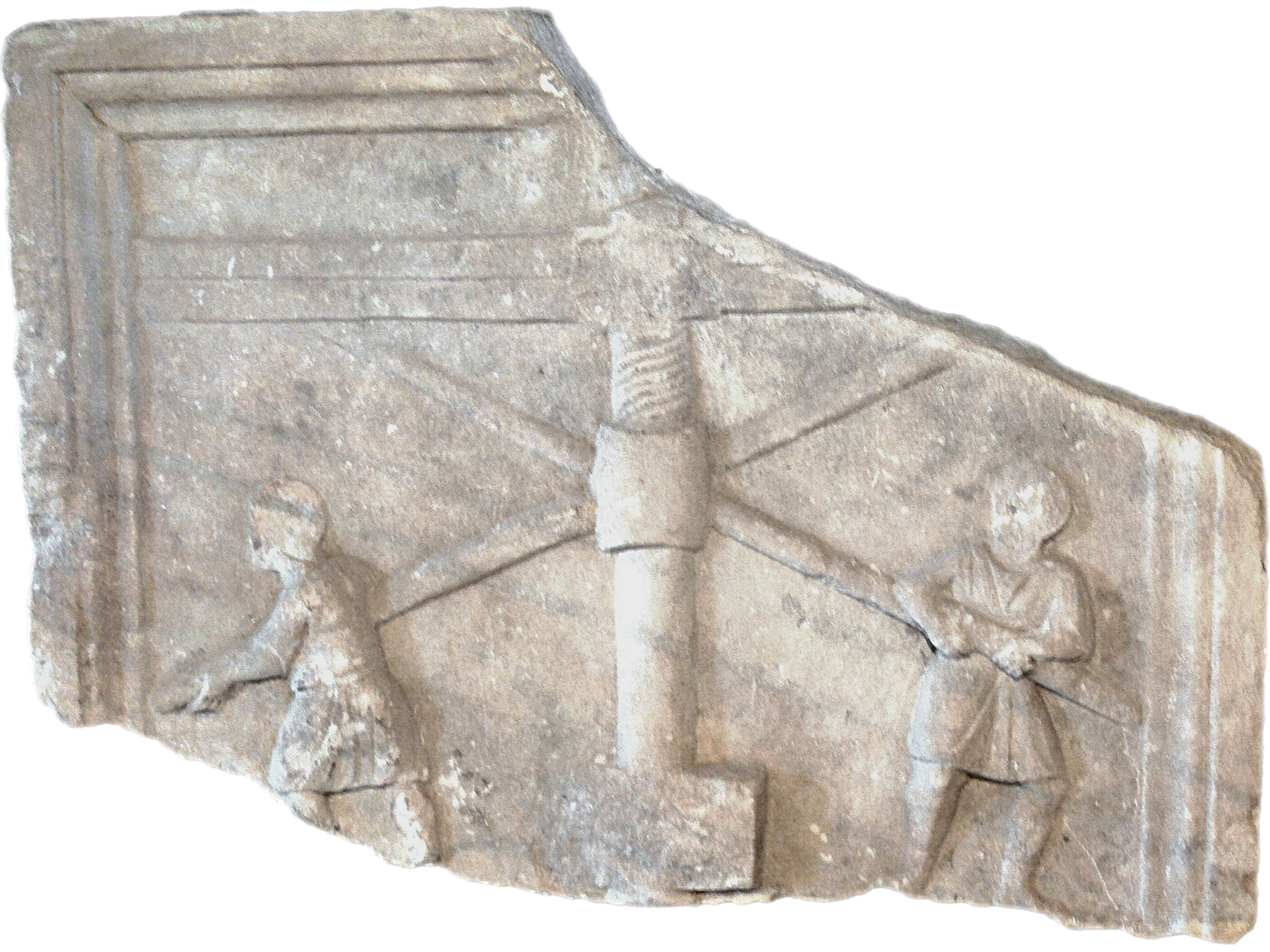 Archeological museum, Aquileia. Relief ( 3rd century ) showing an olive press.